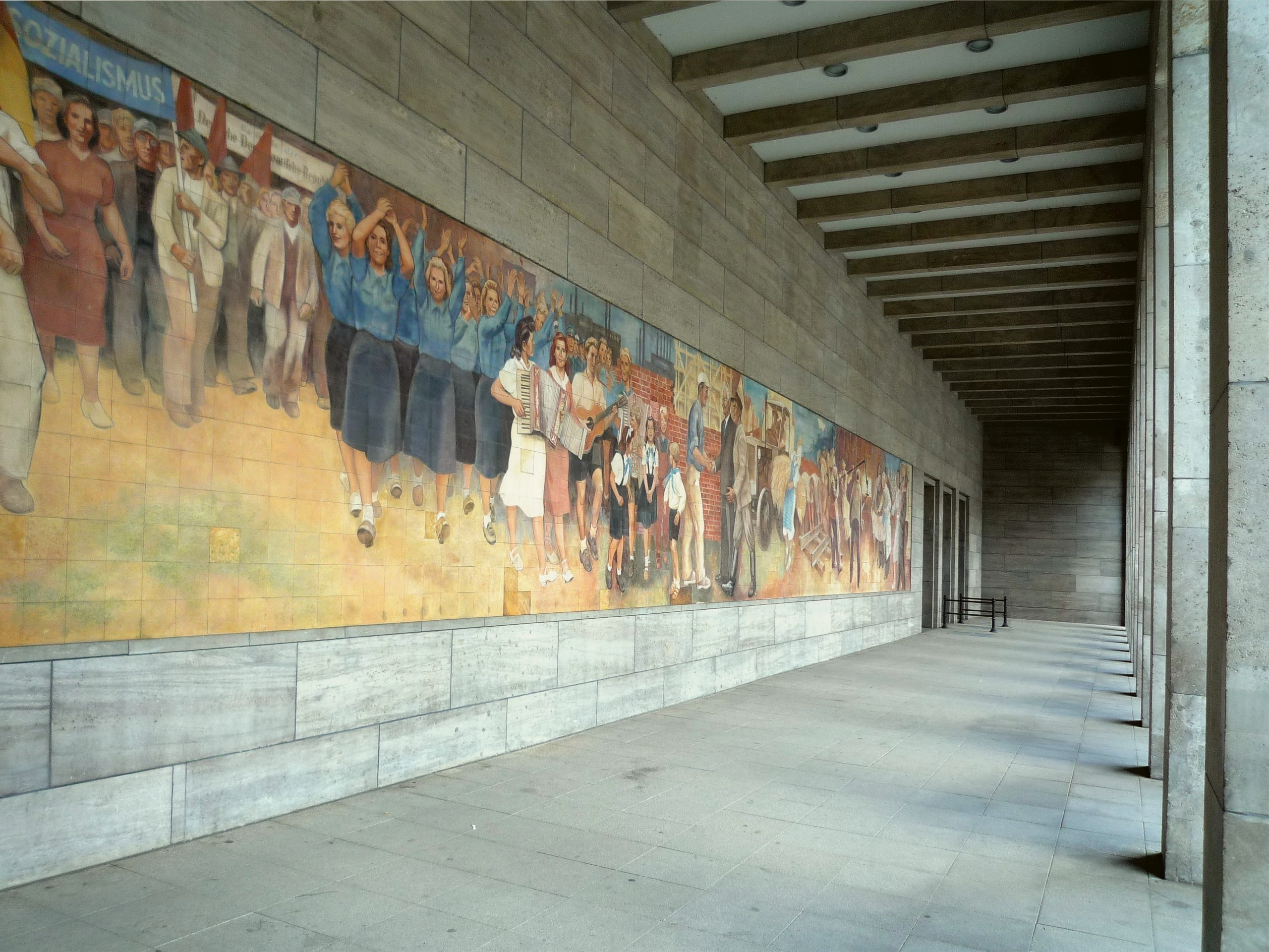 Mural painting "Building of the republic" by Max Lingner at the "Detlev-Rohwedder-Haus" in Berlin, the former "House of Ministries" of the GDR. The paintig was made in 1950-1953. Partial view.